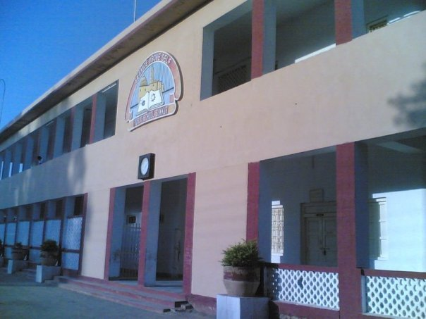 Public School, Sukkur